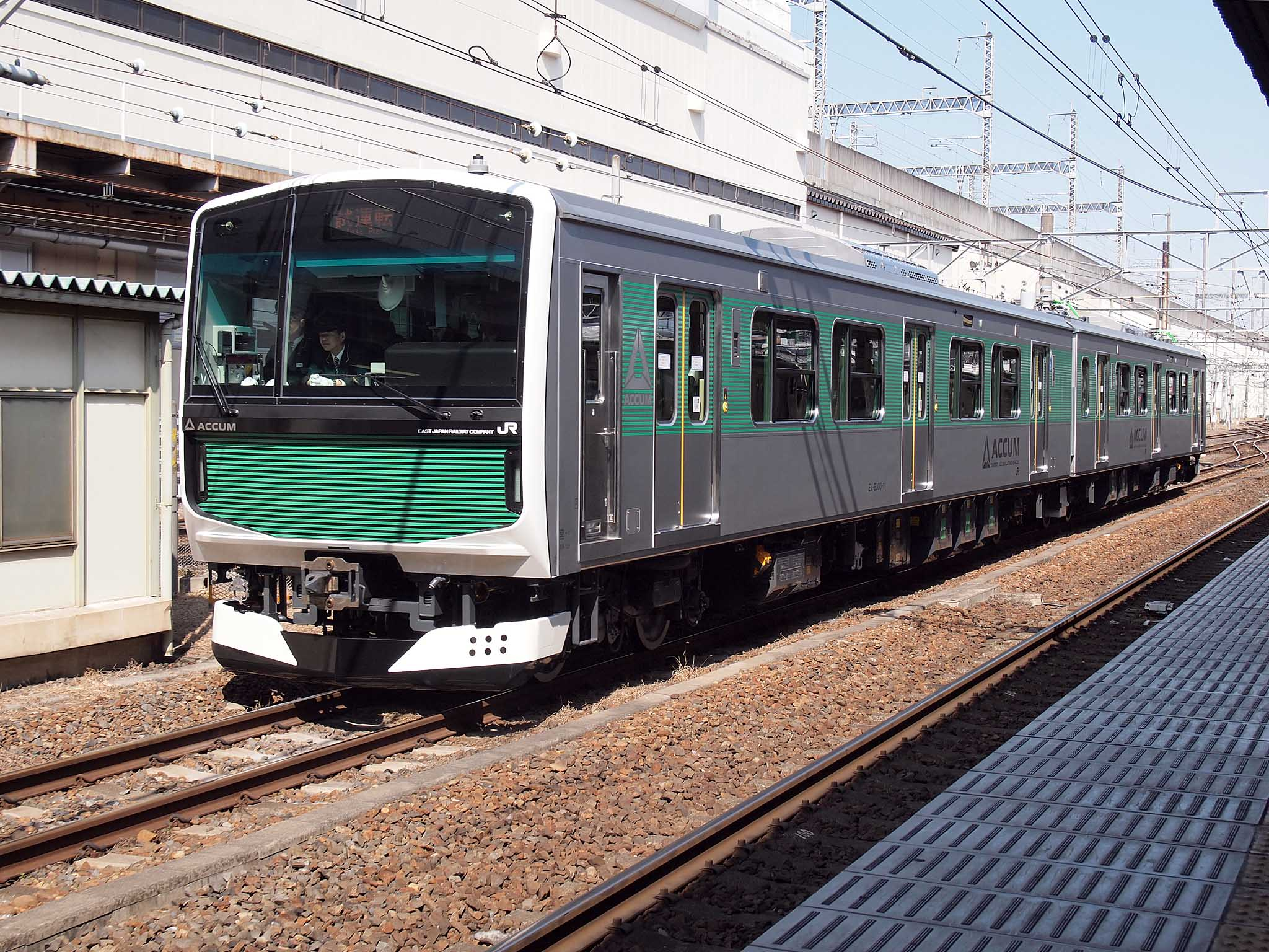 The first JR East EV-E300 series battery EMU set, V1, at Utsunomiya Station on a test run on battery power with its pantographs lowered